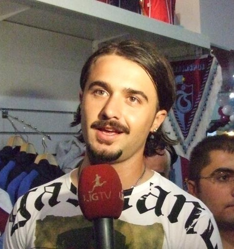 Turkish goalkeeper